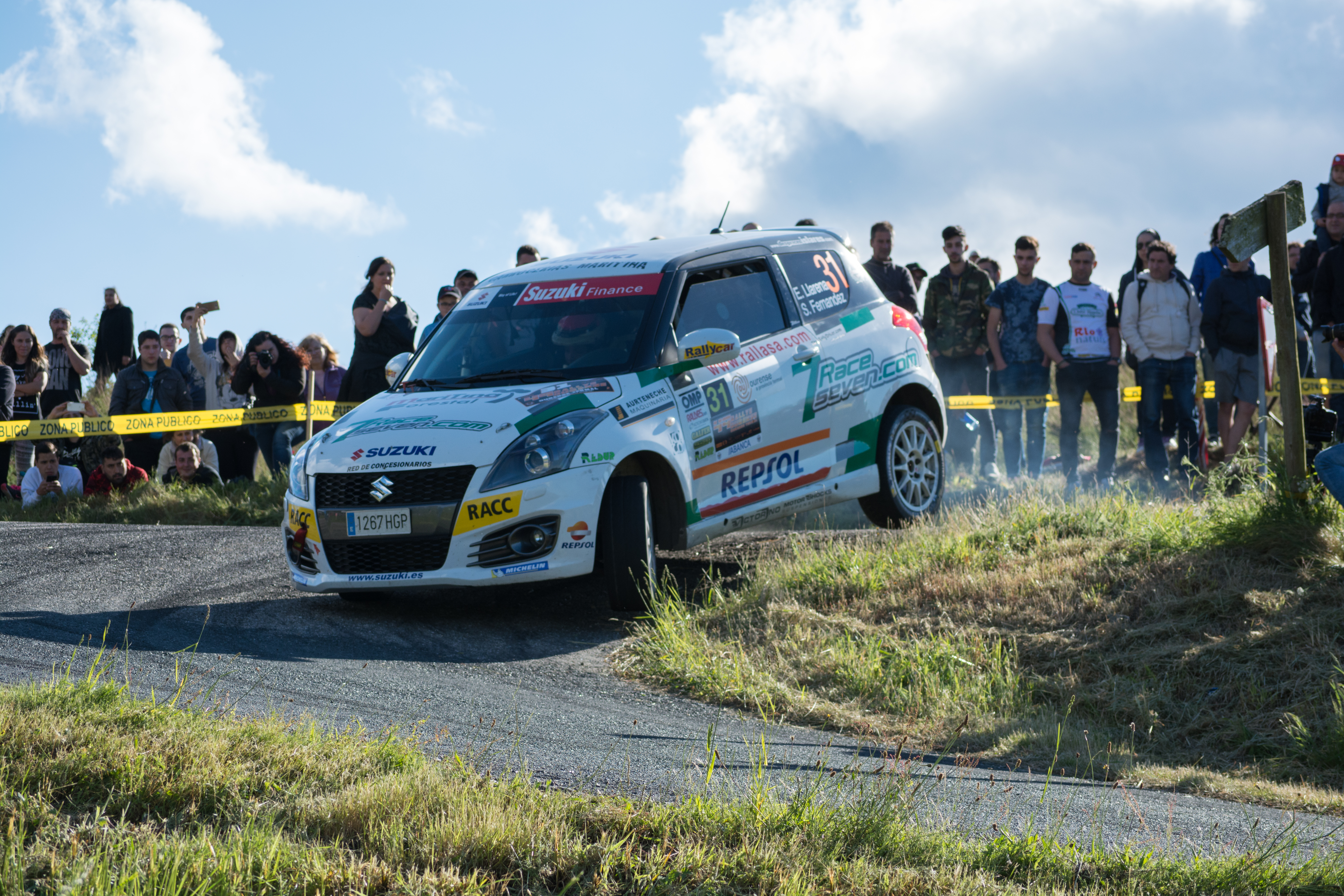 '49 TRally de Ourense ' in 2016, in the city of Ourense, scoring for the CERA.